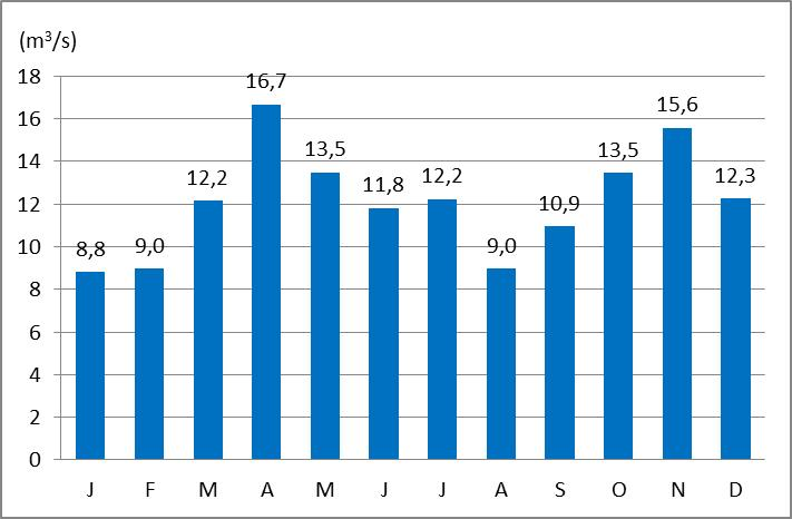 Average monthly discharges of Meža River at the gauging station Otiški Vrh in 1971–2000